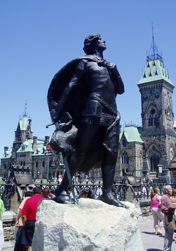 Taken by SimonP in July 2005. Statue of Sir Galahad in honour of Henry Albert Harper on Parliament Hill in Ottawa